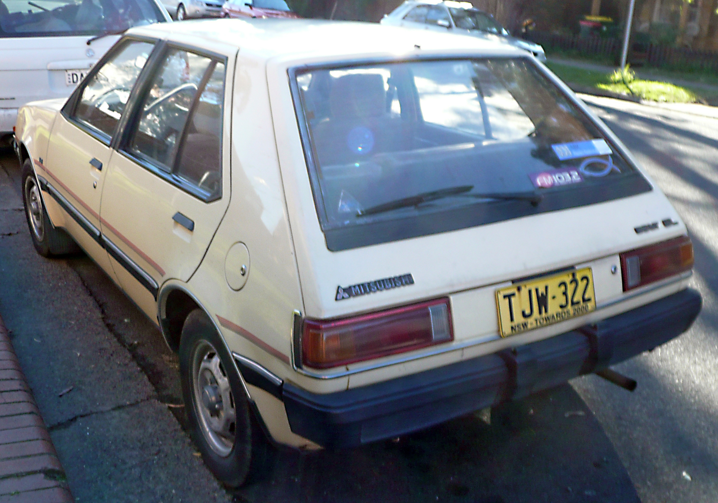 1986 Mitsubishi Colt (RC) GL 5-door hatchback. Photographed in Sutherland, New South Wales, Australia.